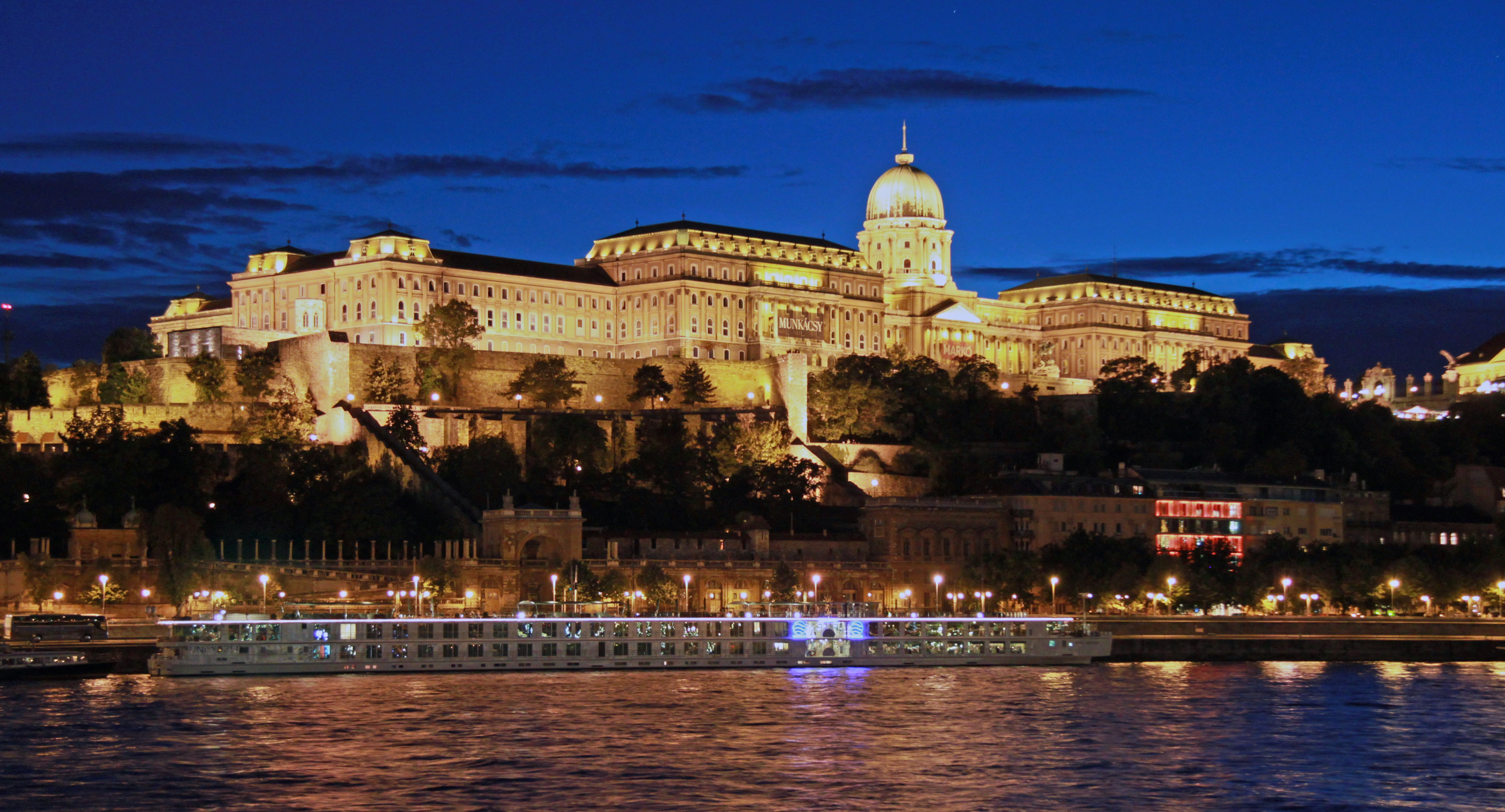 River cruise ship River Beatrice at night in front of Buda castle in Budapest